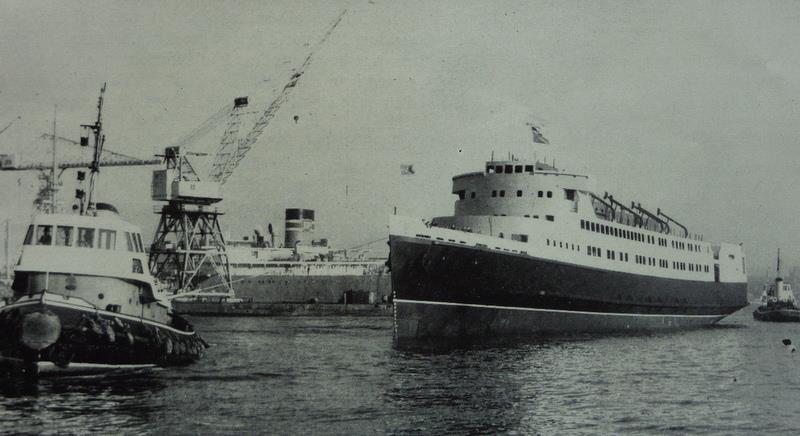 Launch of Ben-my-Chree (V) at Birkenhead